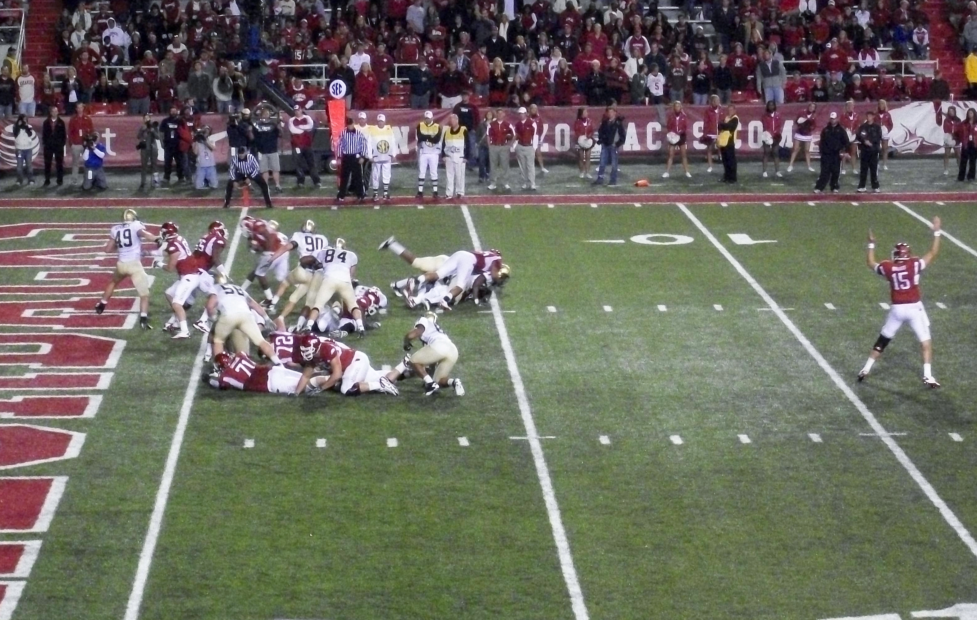 Running back Knile Davis of Arkansas scores a touchdown against Vanderbilt in 2010.